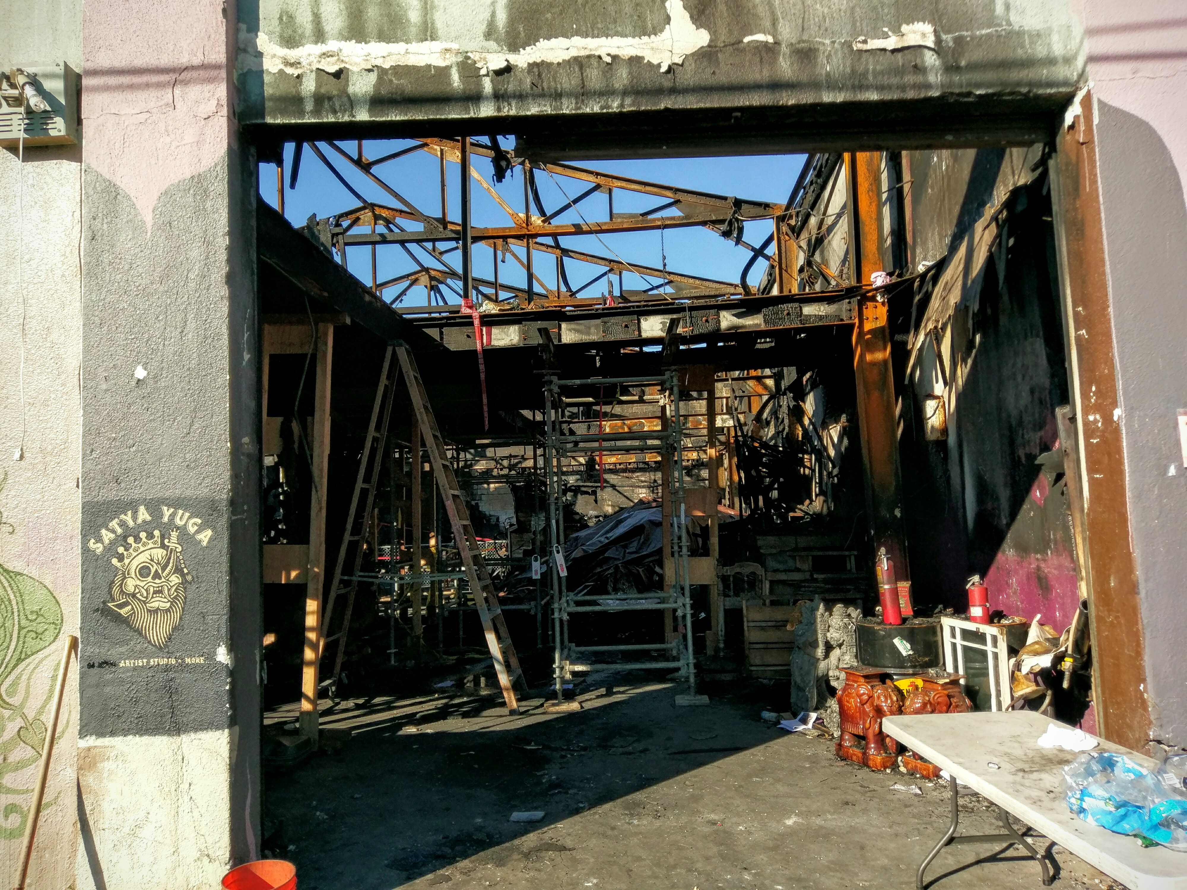 The interior of the Ghost Ship warehouse, where 36 people died in a fire on December 2, 2016. The photo was taken 20 days after the fire.